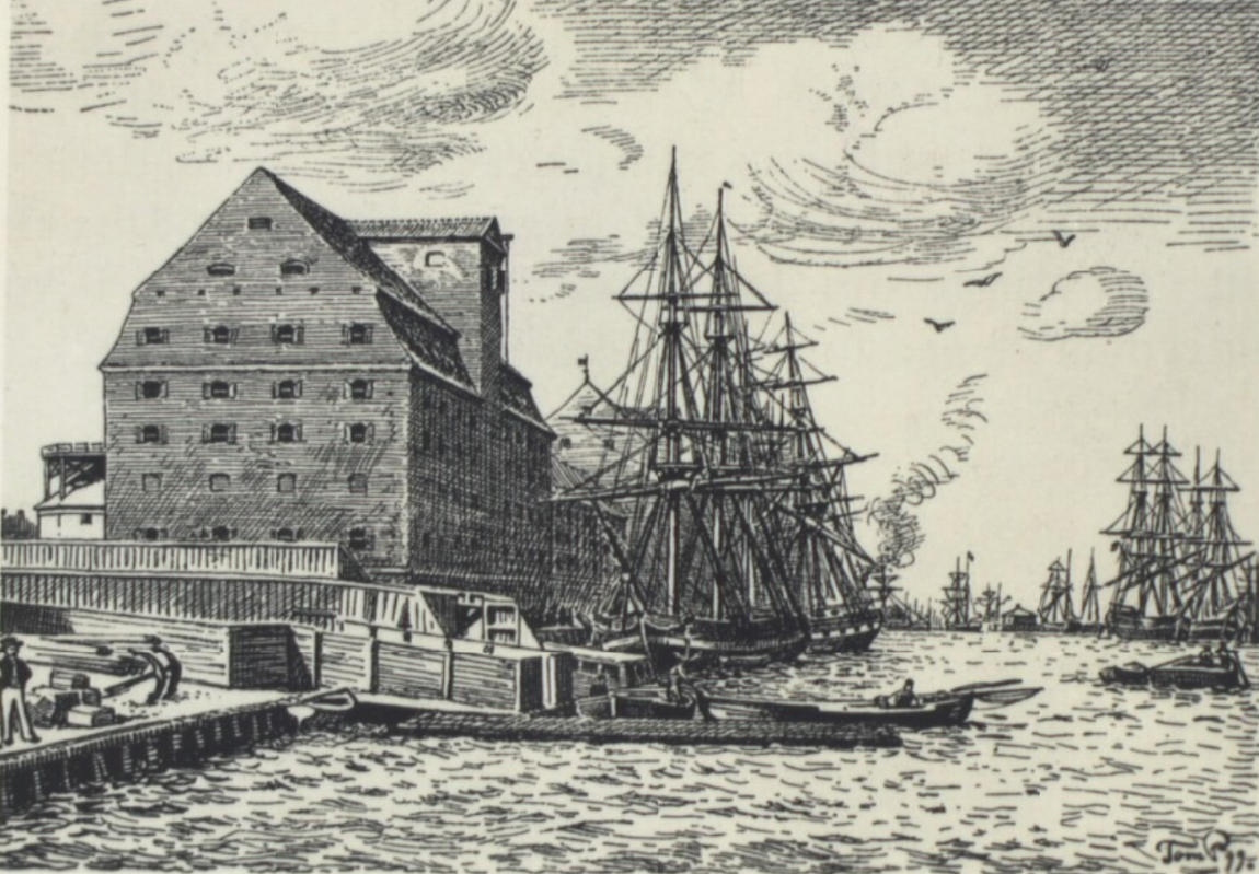 The The building Det Blå Pakhus in Copenhagen, Denmark